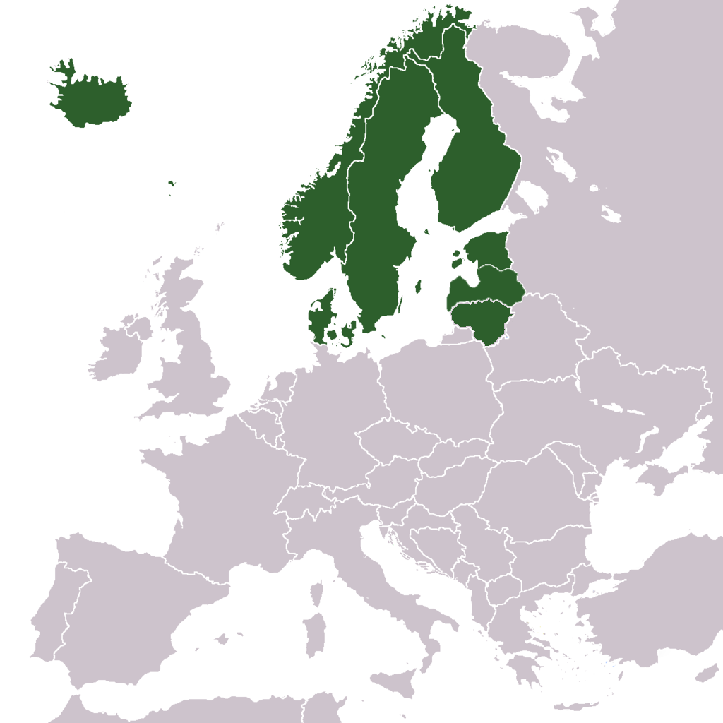 Location of North European countries in Europe